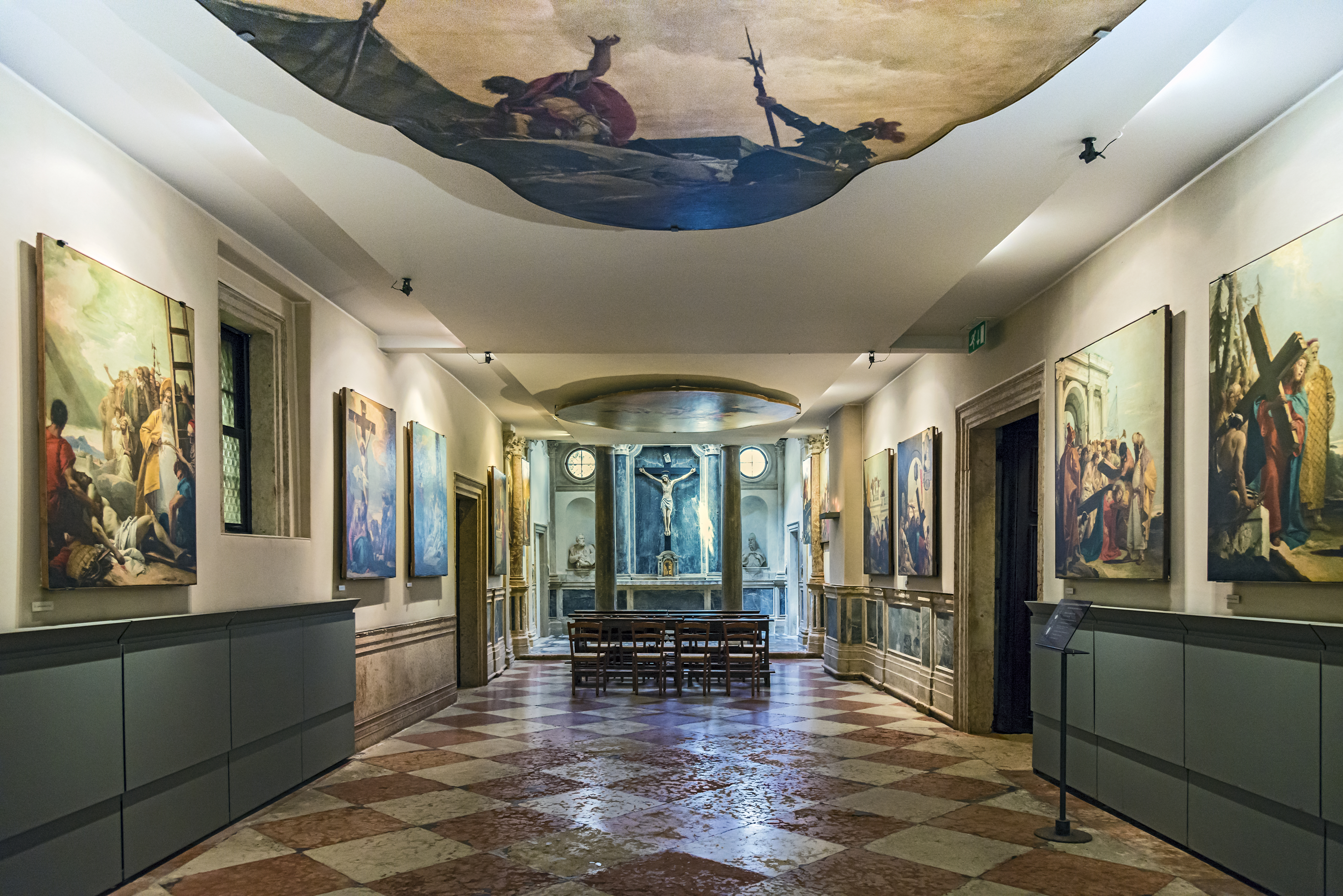 San Polo (church) - Oratory of the Crucifix